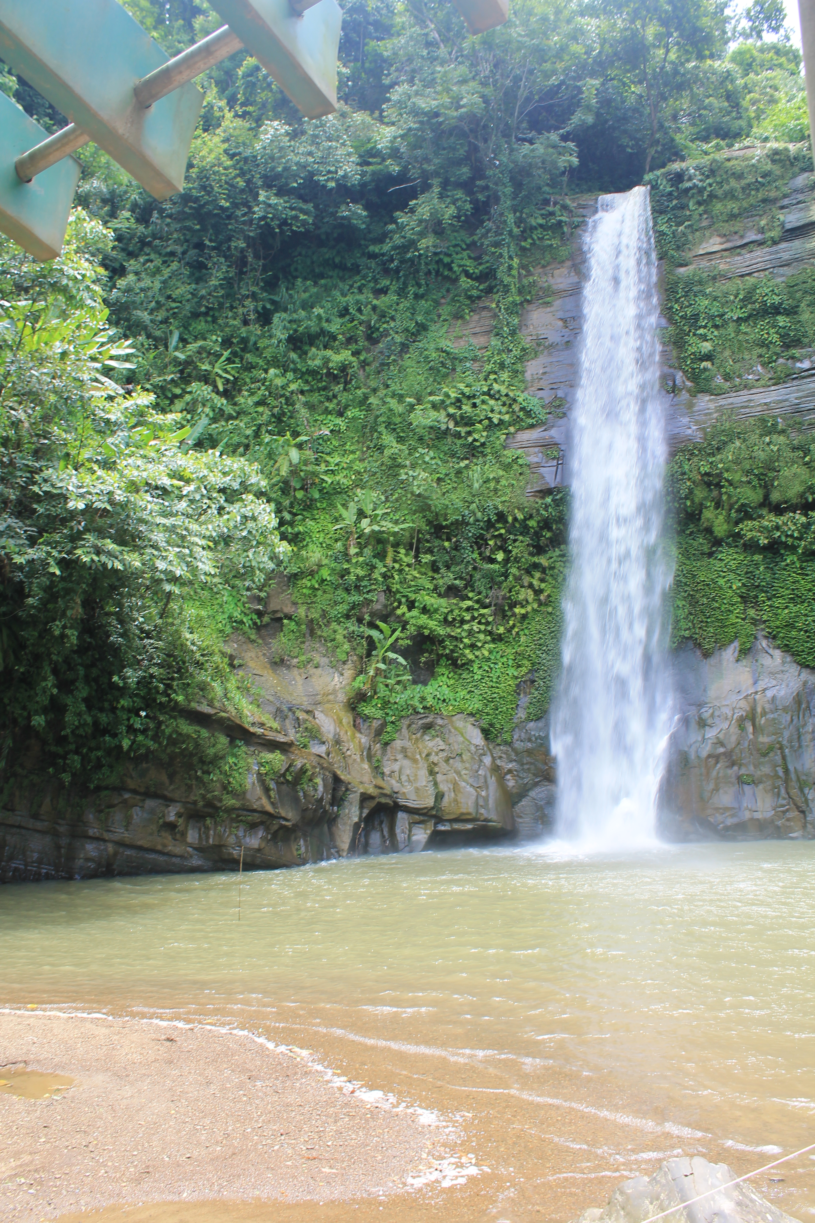 Madhabkunda waterfall is one of the largest waterfalls in Bangladesh. It is situated in Barlekha thana (subdistrict) in Moulvi Bazar District, Sylhet Division. The waterfall is a popular tourist spot in Bangladesh. Big boulders, surrounding forest, and the adjoining streams attracts many tourists for picnic parties and day trips.